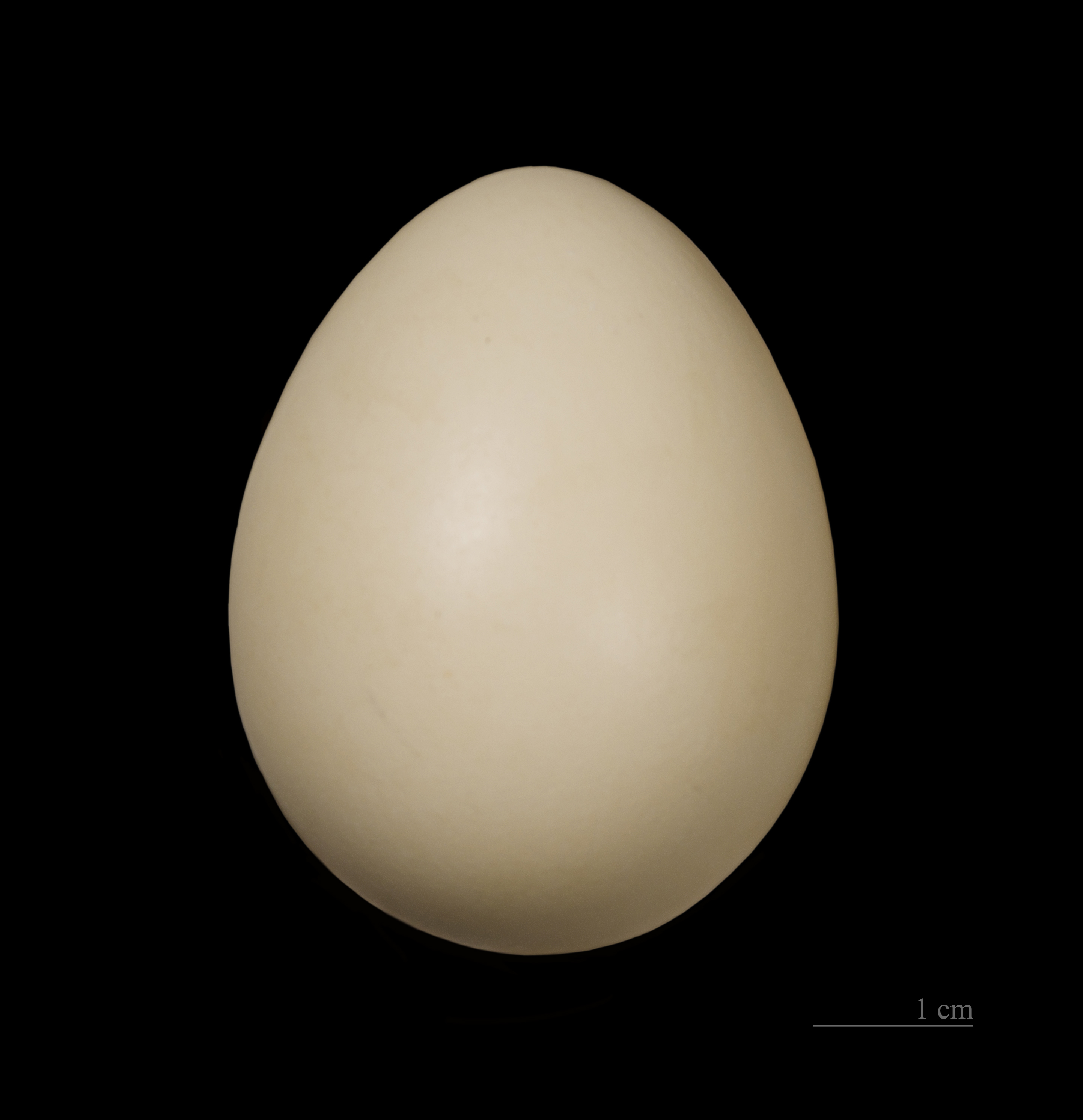 Egg of Grey Junglefowl. Collection of Jacques Perrin de Brichambaut. Locality: Jardin des Plantes Paris France.